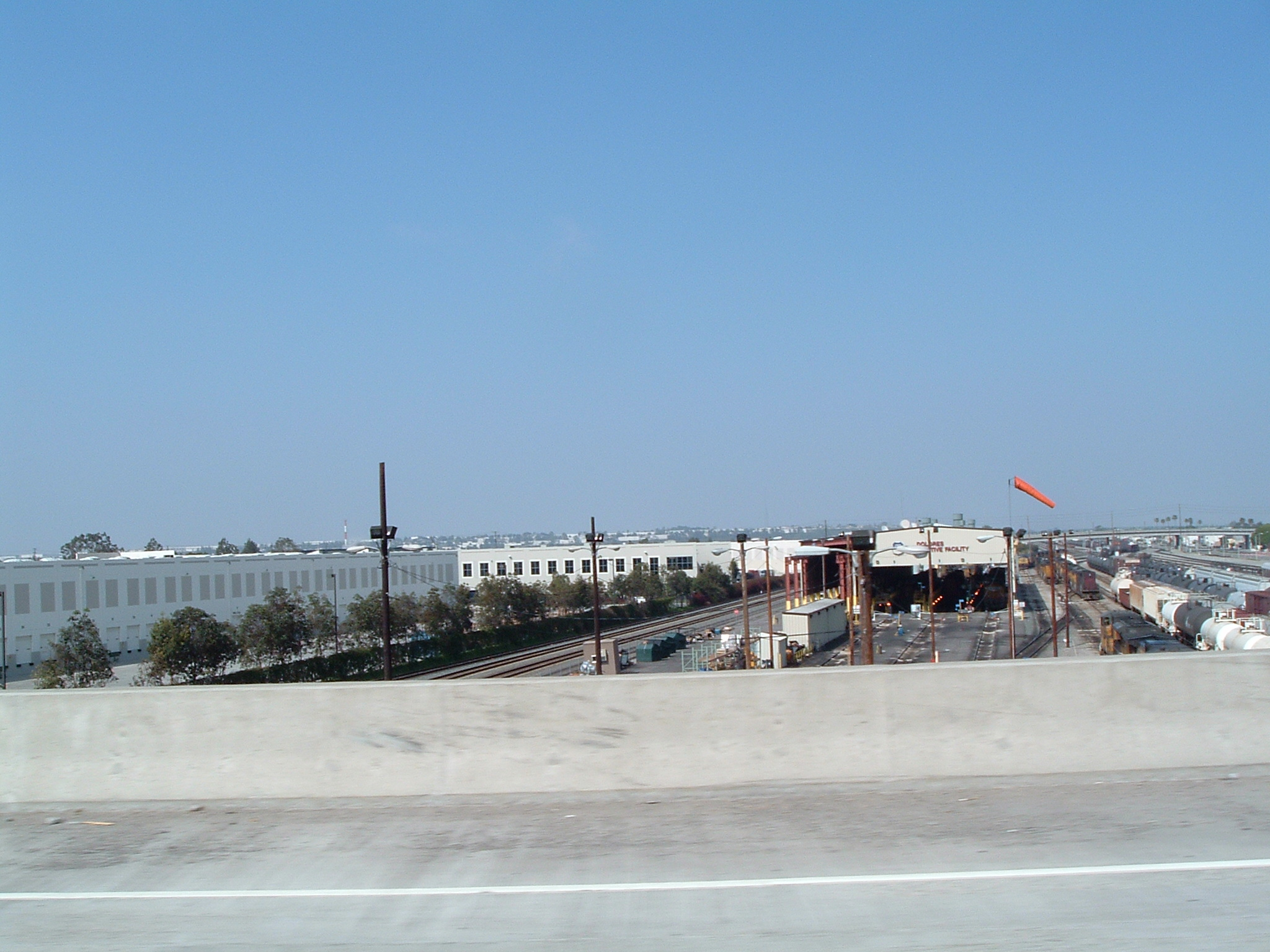 The Dominguez area of Carson taken from the northbound 405 freeway just past the 710 Long Beach Freeway. The railyard below is the Union Pacific engine maintenance facility.